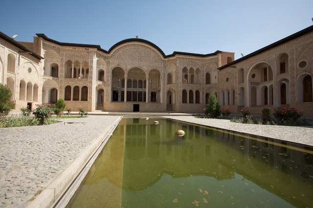 Tabatabei house, Kashan. The house of a wealthy 19th century carpet merchant.